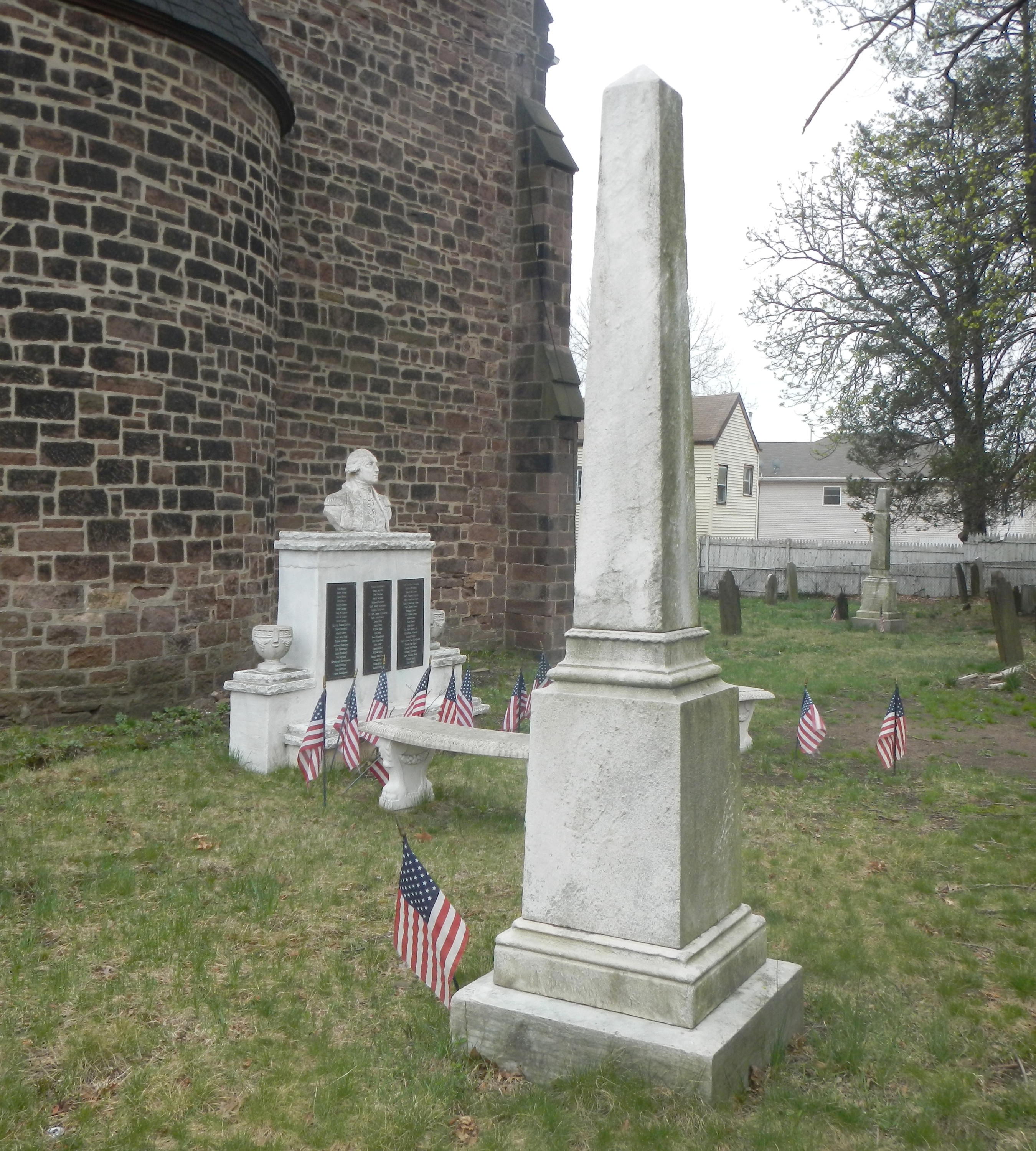 Looking south at monument behind church on a cloudy afternoon.